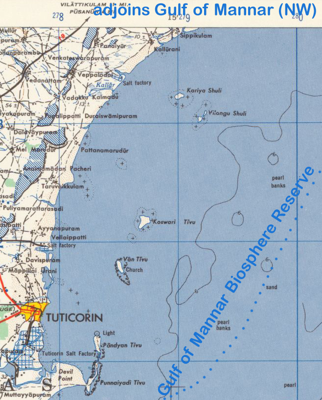 Gulf of Mannar (NW), Tamil Nadu, India